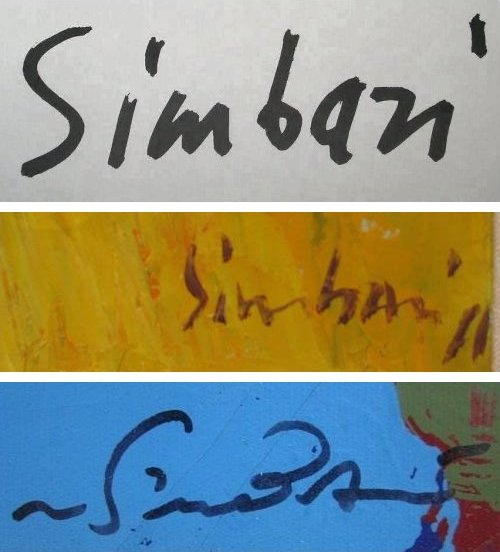 Signatures of Nicola Simbari